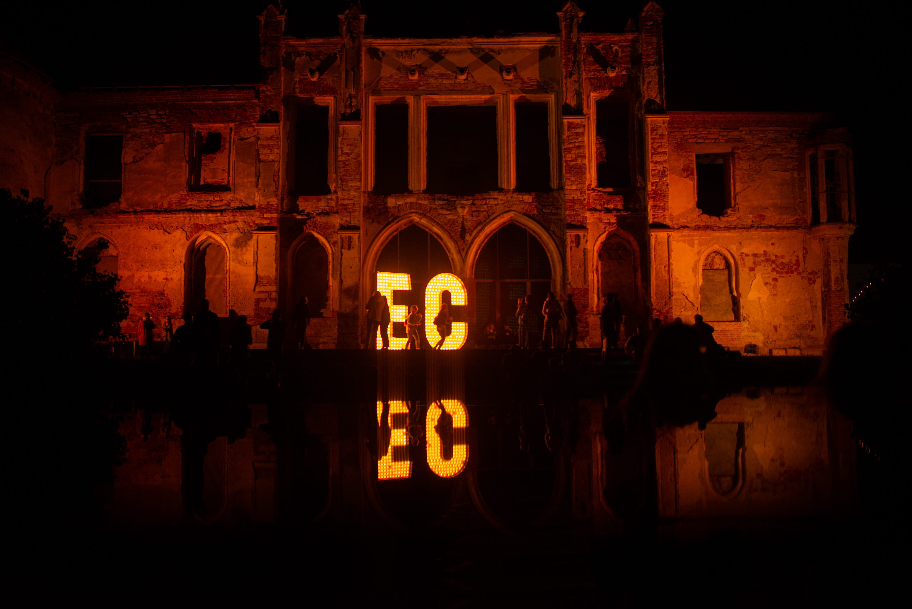 EC Sign on the Neo-Gothic side of the Banffy Castle.